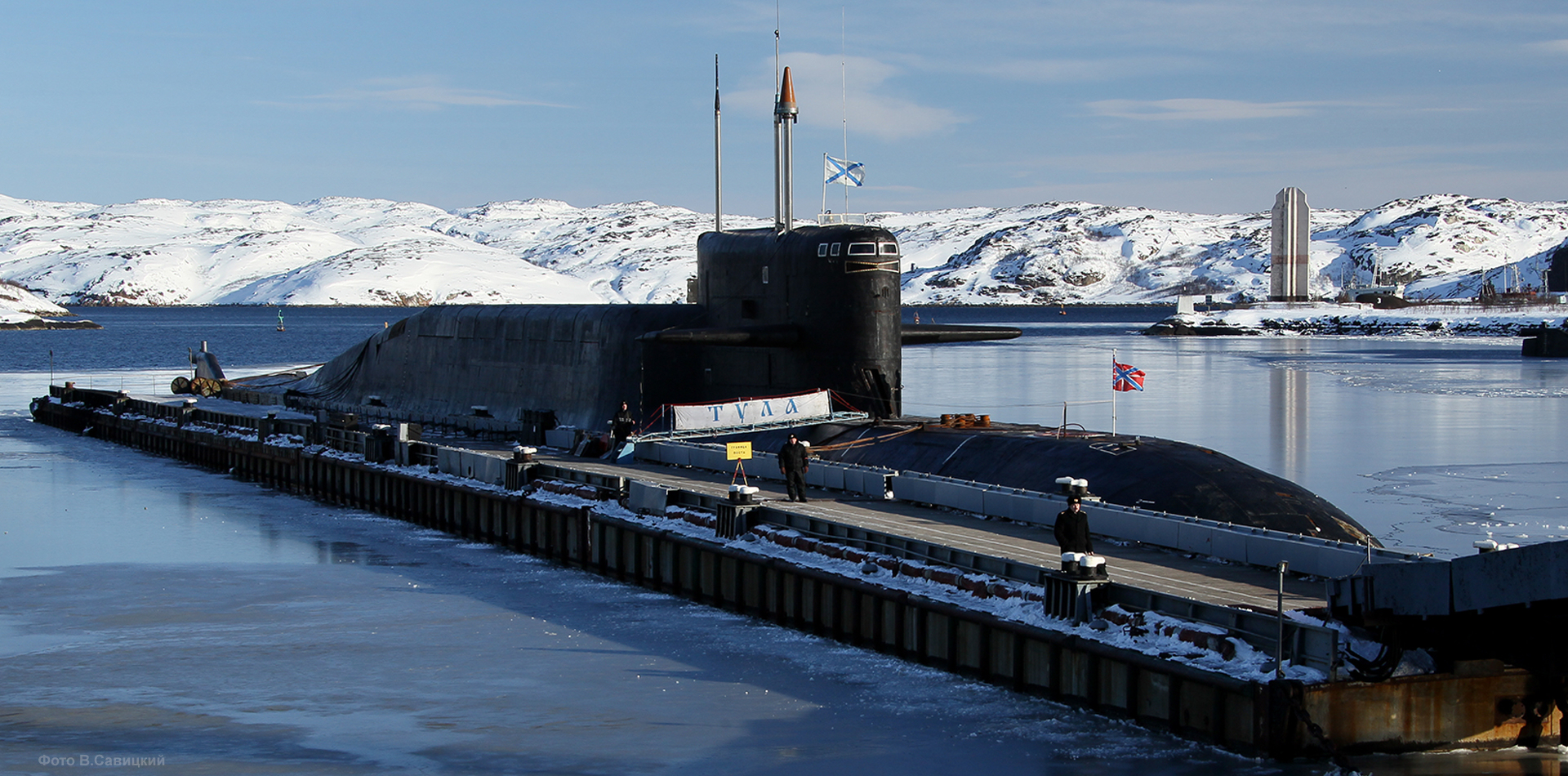 Russian submarine Tula (K-114)